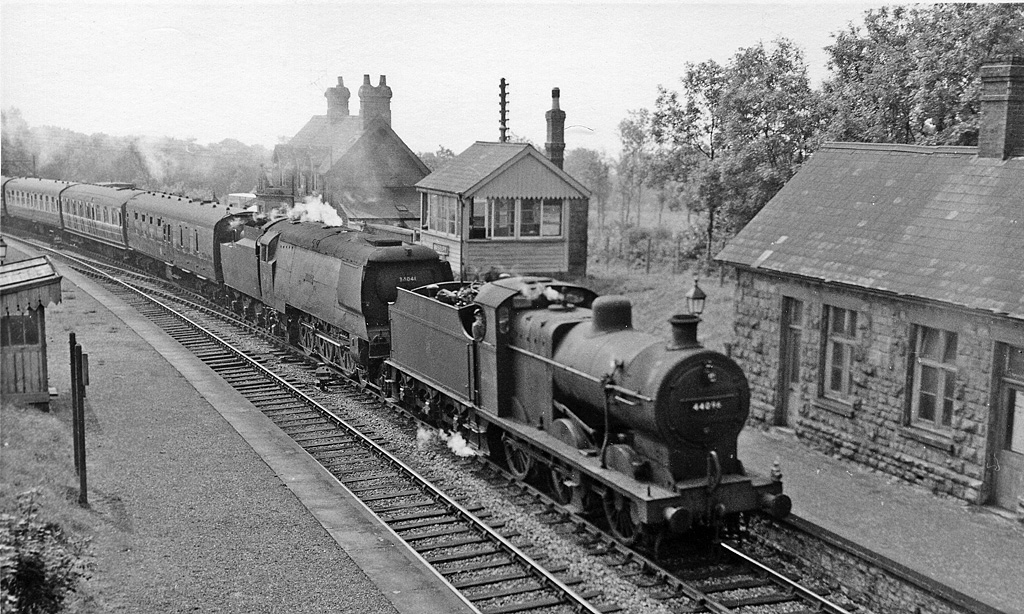 Masbury Station, with Up express. View southward, towards Shepton Mallet, Evercreech Junction, Templecombe and Bournemouth West. It is a Summer Saturday, when the difficult Somerset & Dorset line from Bath to Bournemouth was worked to capacity with holday trains. This is the 11.40 Bournemouth West to Cleethorpes (!) (cf. ST6552 : Down S&D express approaching Chilcompton), here with LMS 4F 0-6-0 piloting Southern Light Pacific No. 34041 'Wilton'. (See other S&D scenes at ST6145 : Northbound Somerset & Dorset train climbing up from Shepton Mallet at Windsor Hill, ST6047 : Down S & D train at Masbury Summit, ST6144 : Down S&D express near Shepton Mallet and ST6653 : Midsomer Norton South Station, with Down express).